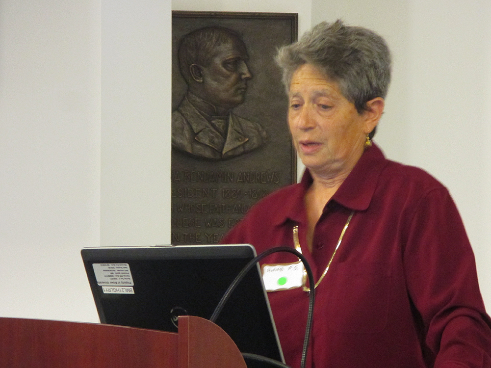 Biology professor Anne Fausto-Sterling speaking at the Ada Lovelace Day Wikipedia edit-a-thon at Brown University, Providence, Rhode Island. October 15, 2013